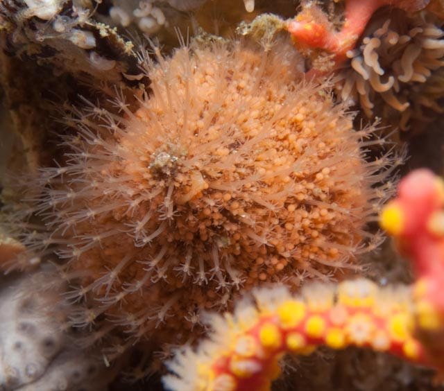 A photograph of the high-spined commensal hydroid, Hydtractinia altispina taken in 30m of water in False Bay Cape Town using a housed Fuji camera